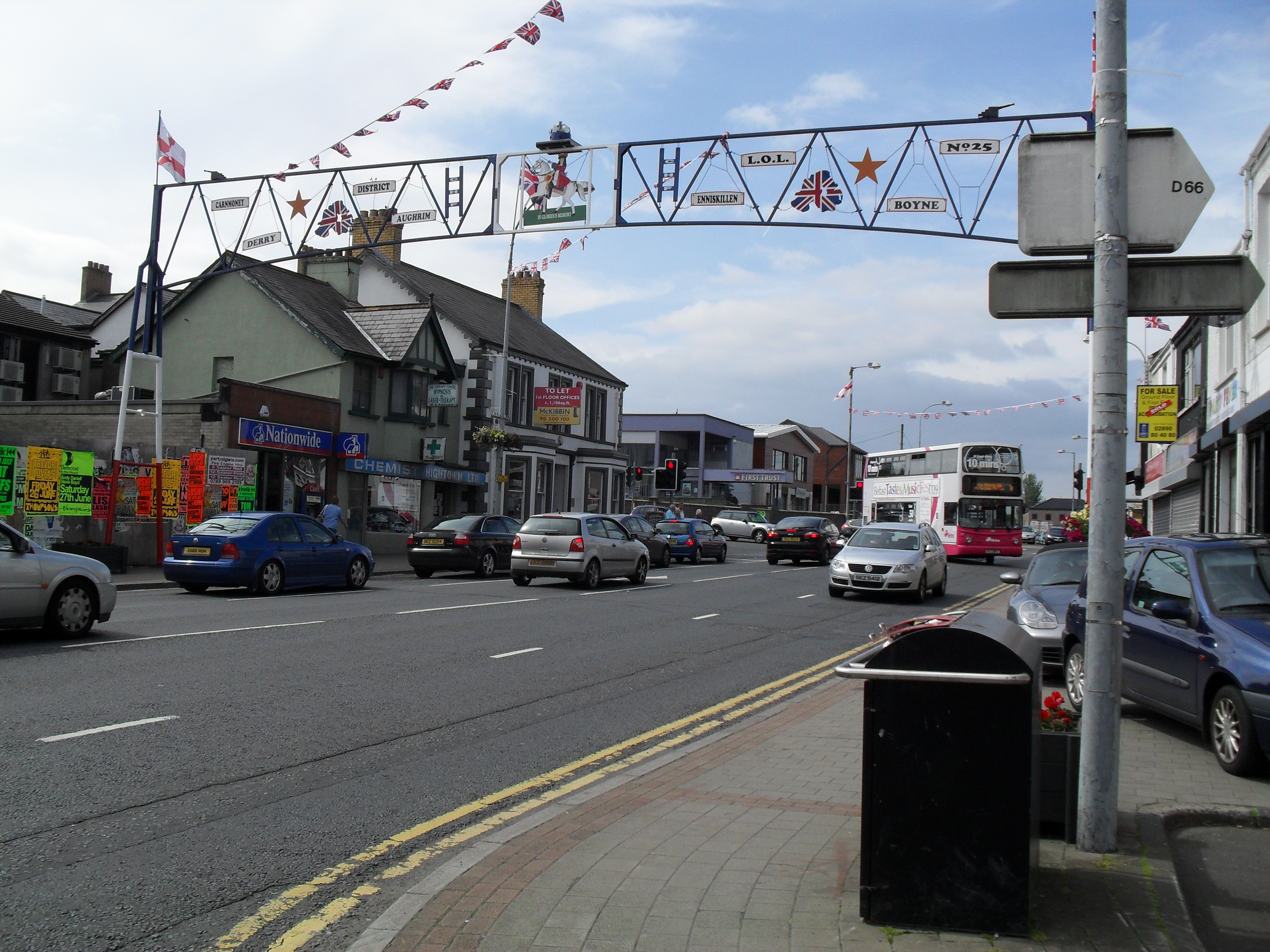 Orange Arch on the Antrim Road, Glengormley, Newtownabbey.